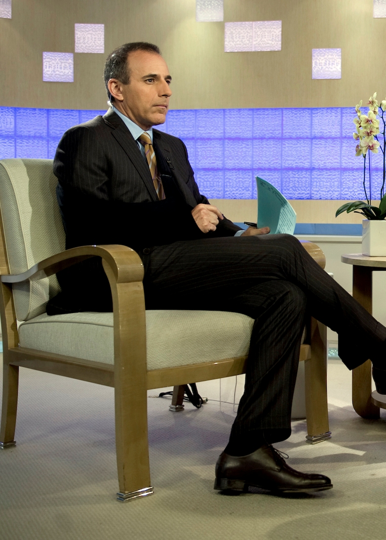 Matt Lauer interviewing U.S. Navy Adm. Mike Mullen, chairman of the Joint Chiefs of Staff, on NBC's Today Show in New York City. Photo cropped from original